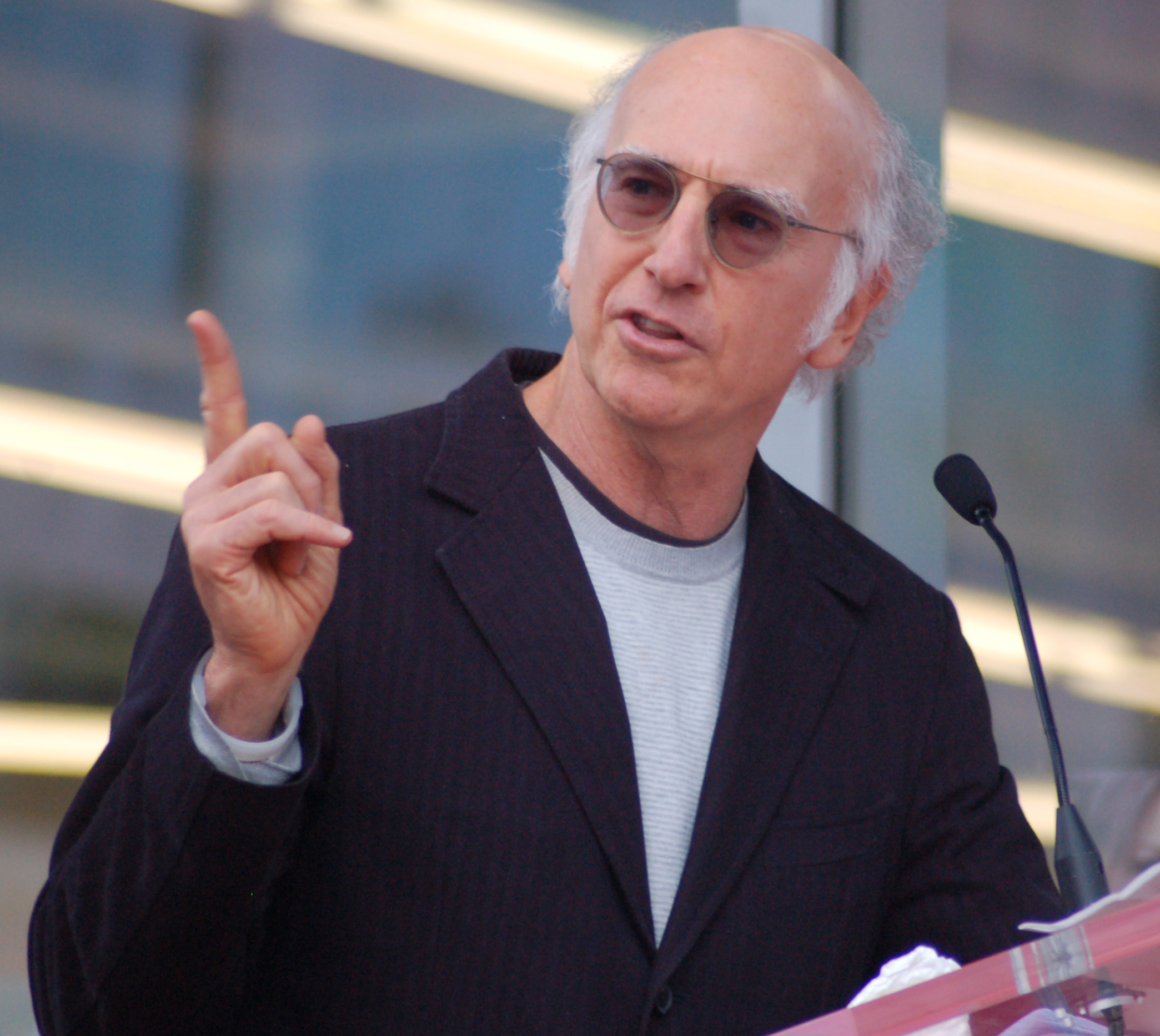 Larry David at a ceremony for Mary Steenburgen to receive a star on the Hollywood Walk of Fame.